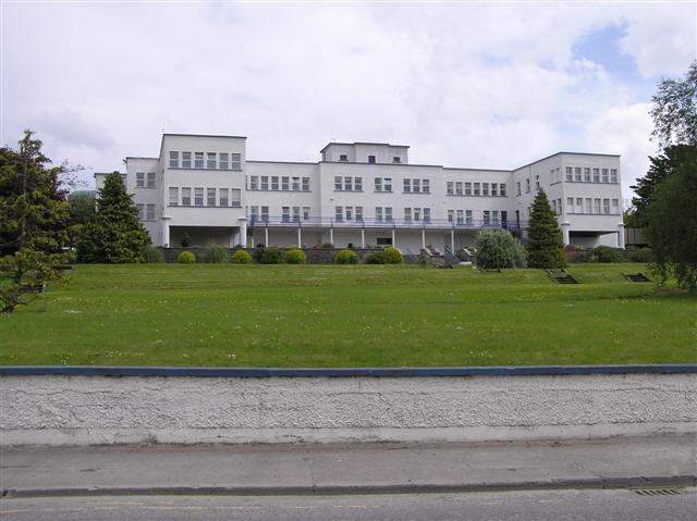 Our Lady's Hospital, Manorhamilton Looking north-east from Station Road